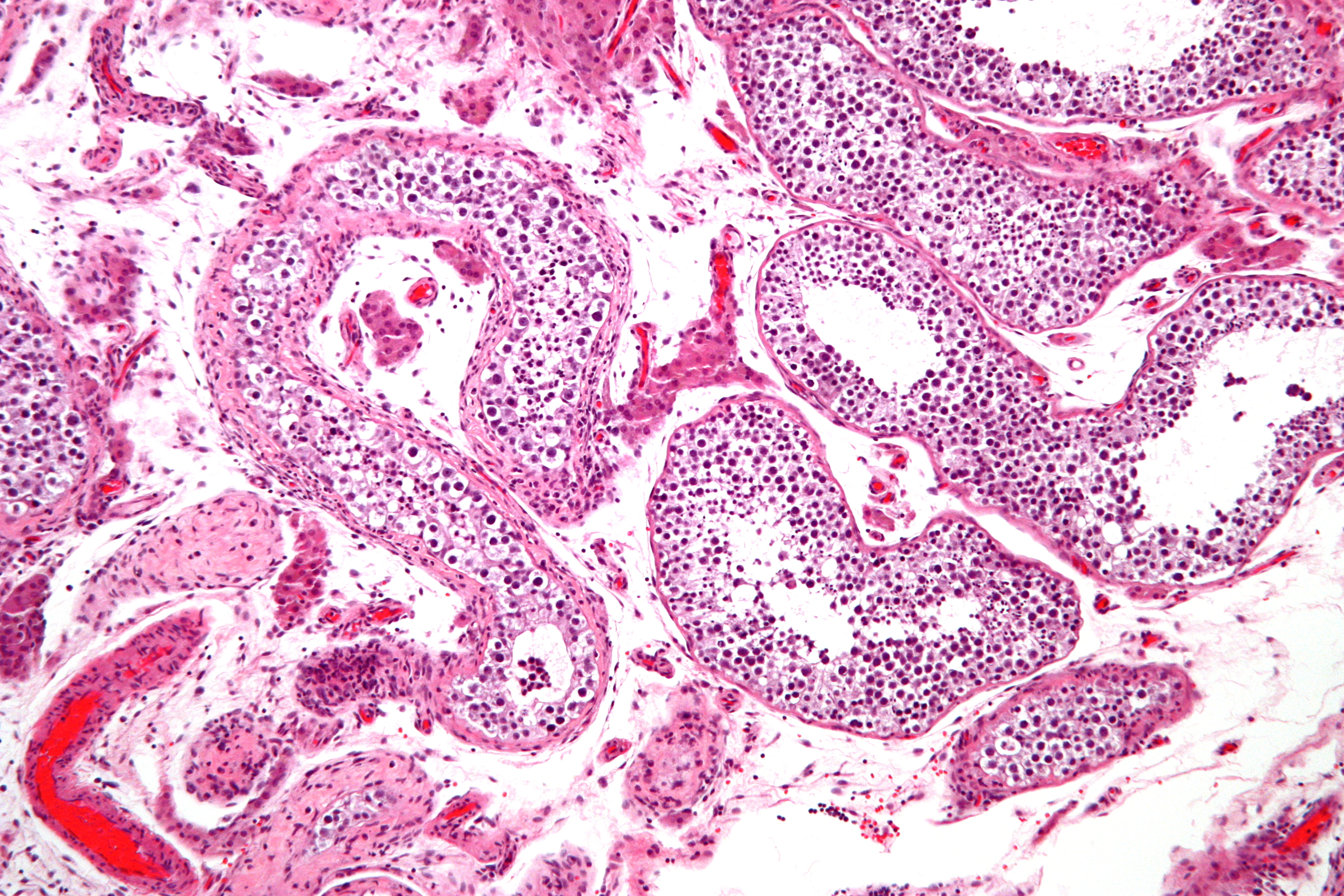 Intermediate magnification micrograph of intratubular germ cell neoplasia, abbreviated ITGCN. H&E stain. Normal seminiferous tubules with sperm are also seen in the images. This testis had a seminoma; however, this is not shown in the images. Related images Intermed. mag. High mag. Very high mag. Very high mag.